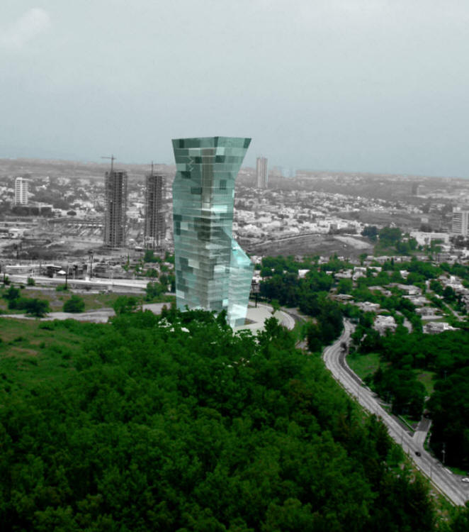 Helix Tower, luisvicenteflores, Guadalajara, mx, 2008